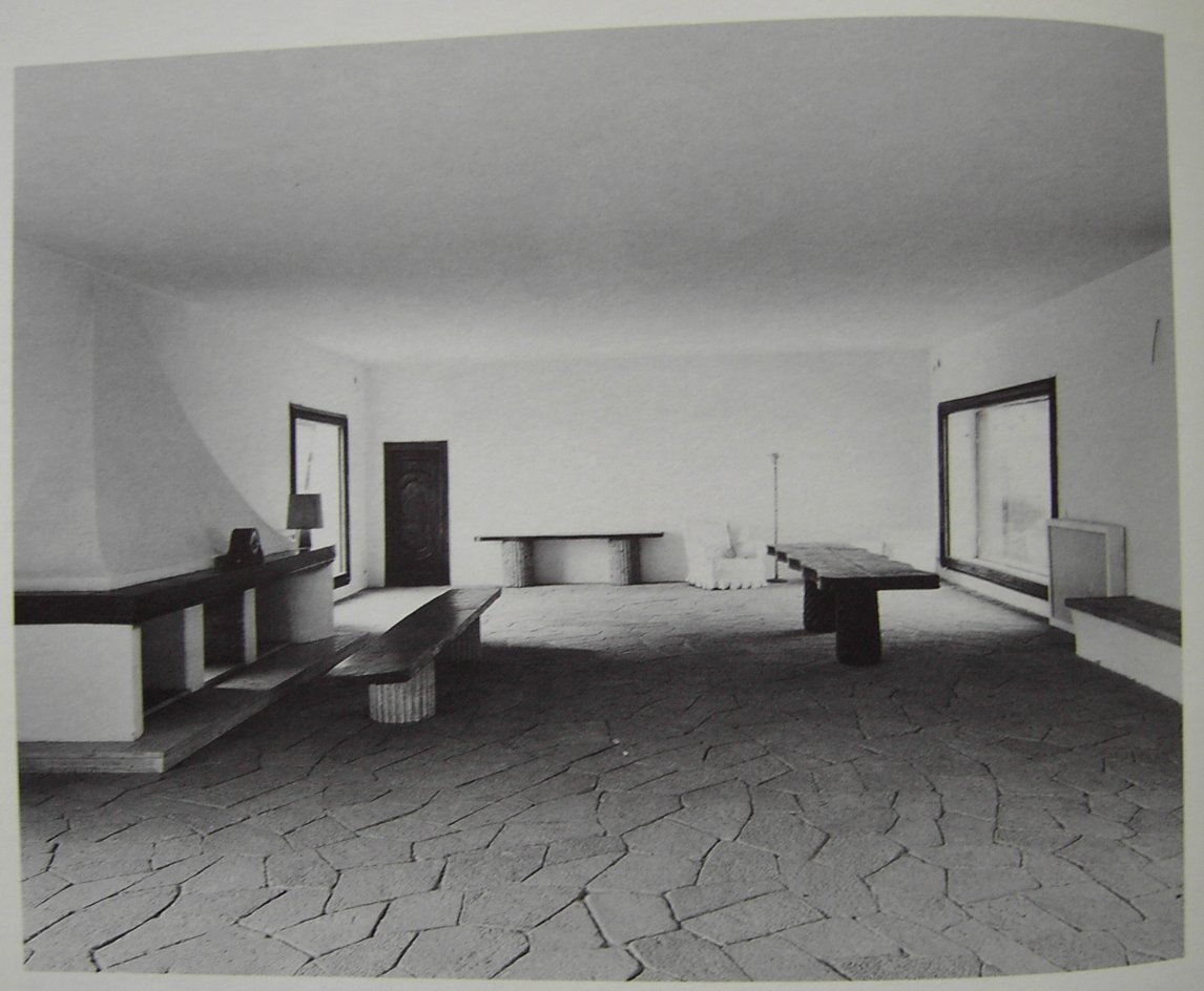 Interior Of Villa Malaparte, Capri (1937). Only living room with fireplace measures 142 m2.